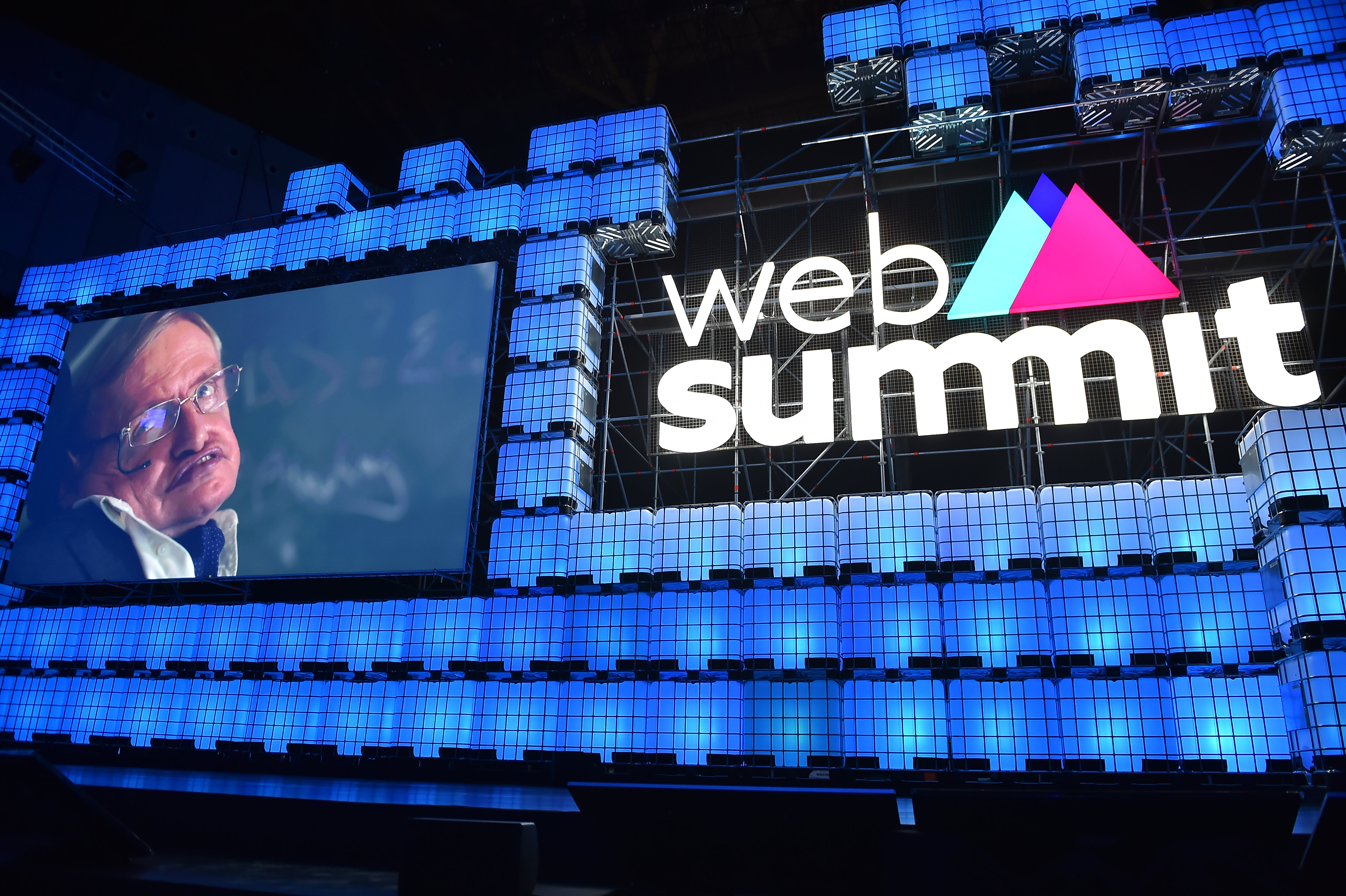 6 November 2017; Stephen Hawking speaking on centre stage via video link during the Web Summit 2017 Opening Cermony at Altice Arena in Lisbon. Photo by Seb Daly/Web Summit via Sportsfile